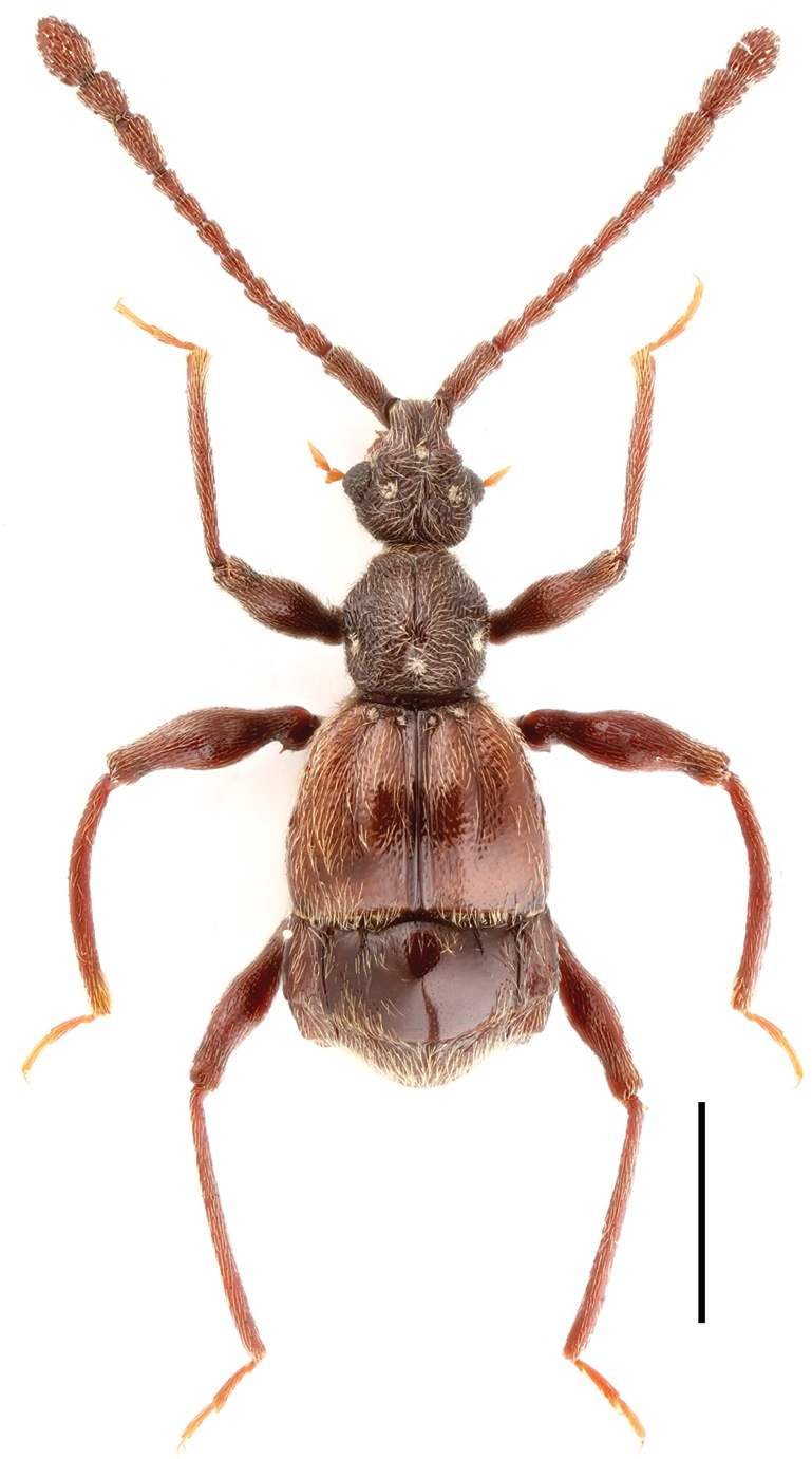 Male habitus of Pselaphodes tiantongensis. Scale: 1.0 mm.